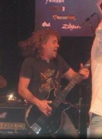 JackBlades Playing